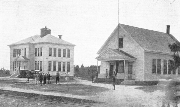 Wells High School (left) and one of Wells' one-room schools (right), circa 1909